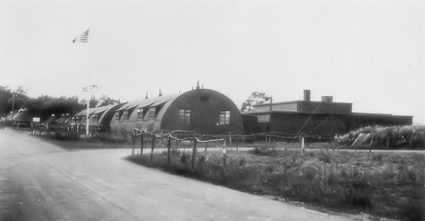 Operational Command Post Buildings - RAF Rivenhall England.